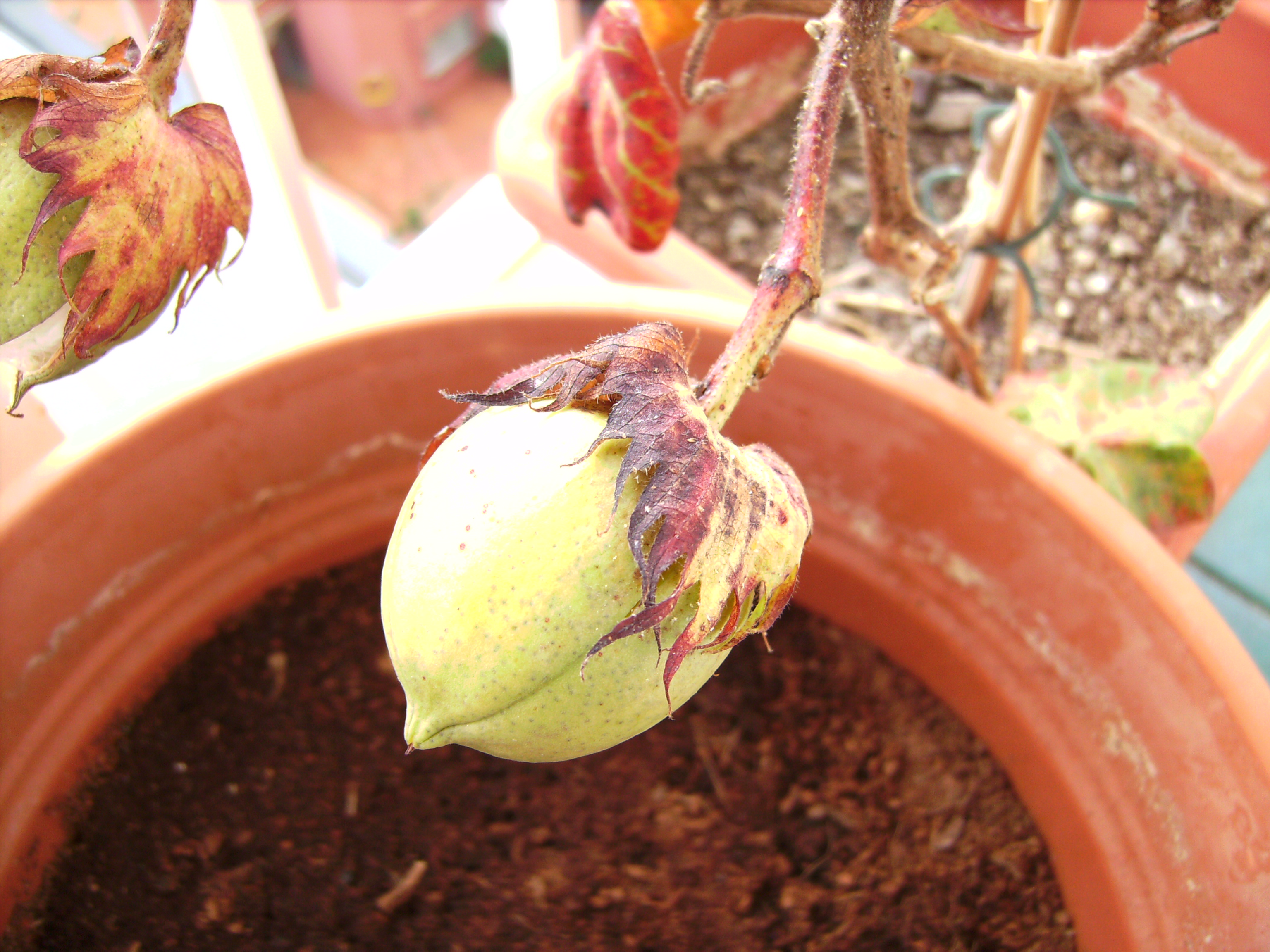 Closed capsule of a cotton plant (Gossypium hirsutum) in Barcelona